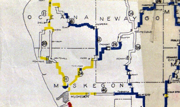 A section of the State of Michigan: Lower Peninsula map, showing M-41 in in Michigan.